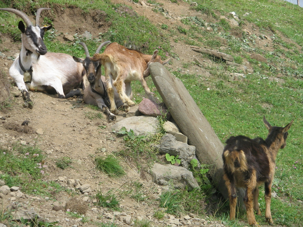 Capre in montagna, Malga Fontanafredda, Monte Pelmo, Dolomiti, Italia Goats in mountain, Malga Fontanafredda, Monte Pelmo, Dolomiti, Italy Made by Piero tasso the 1 of August, 2005